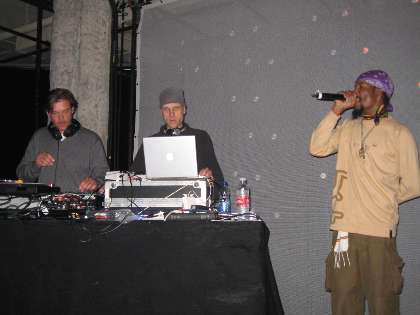 Moritz von Oswald and Mark Ernestus (Rhythm and Sound) with Paul St. Hilaire at Mutek 2007